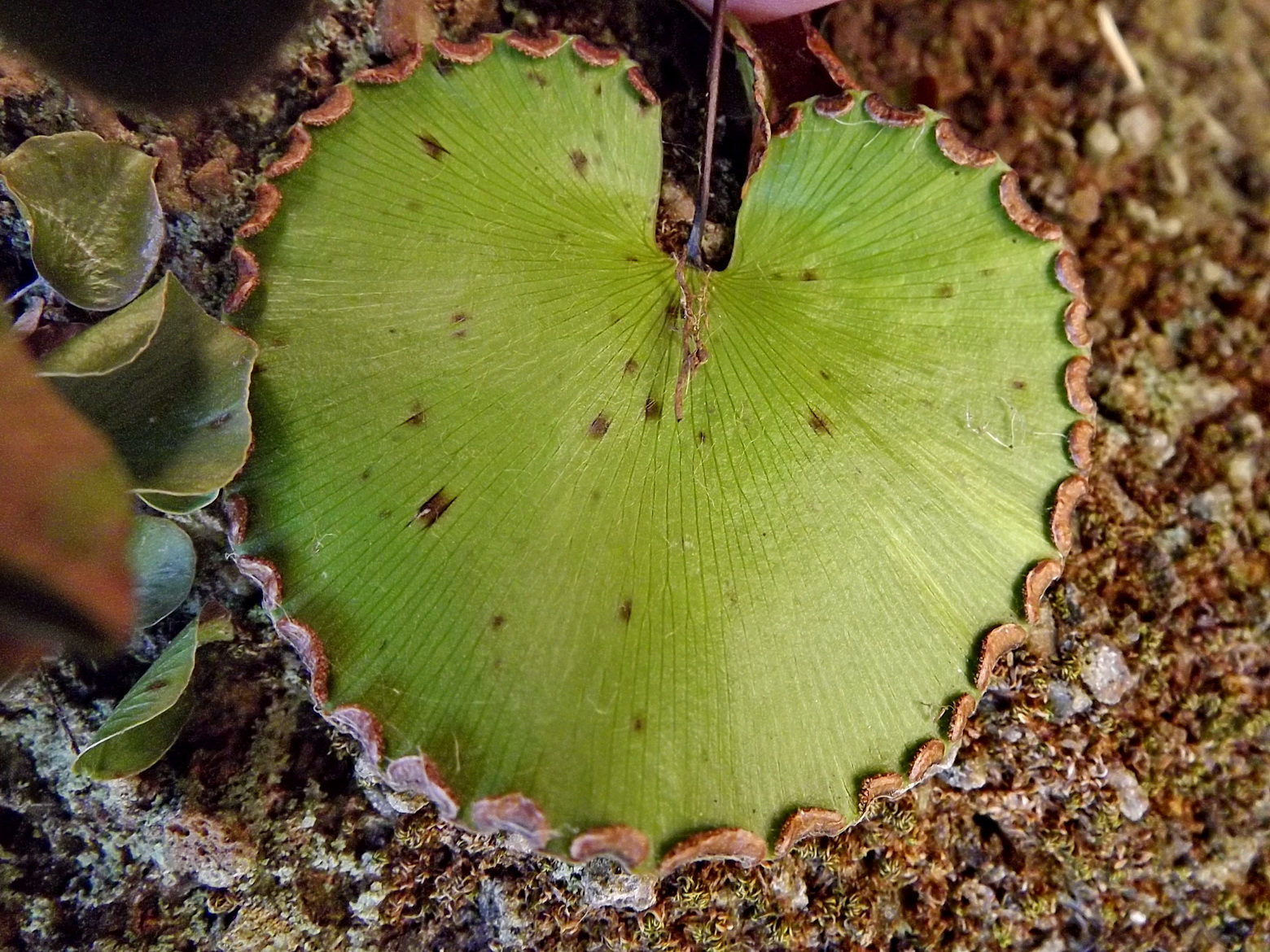 Adiantum reniforme, La Palma, Spain. Detail of underside leaf with sori